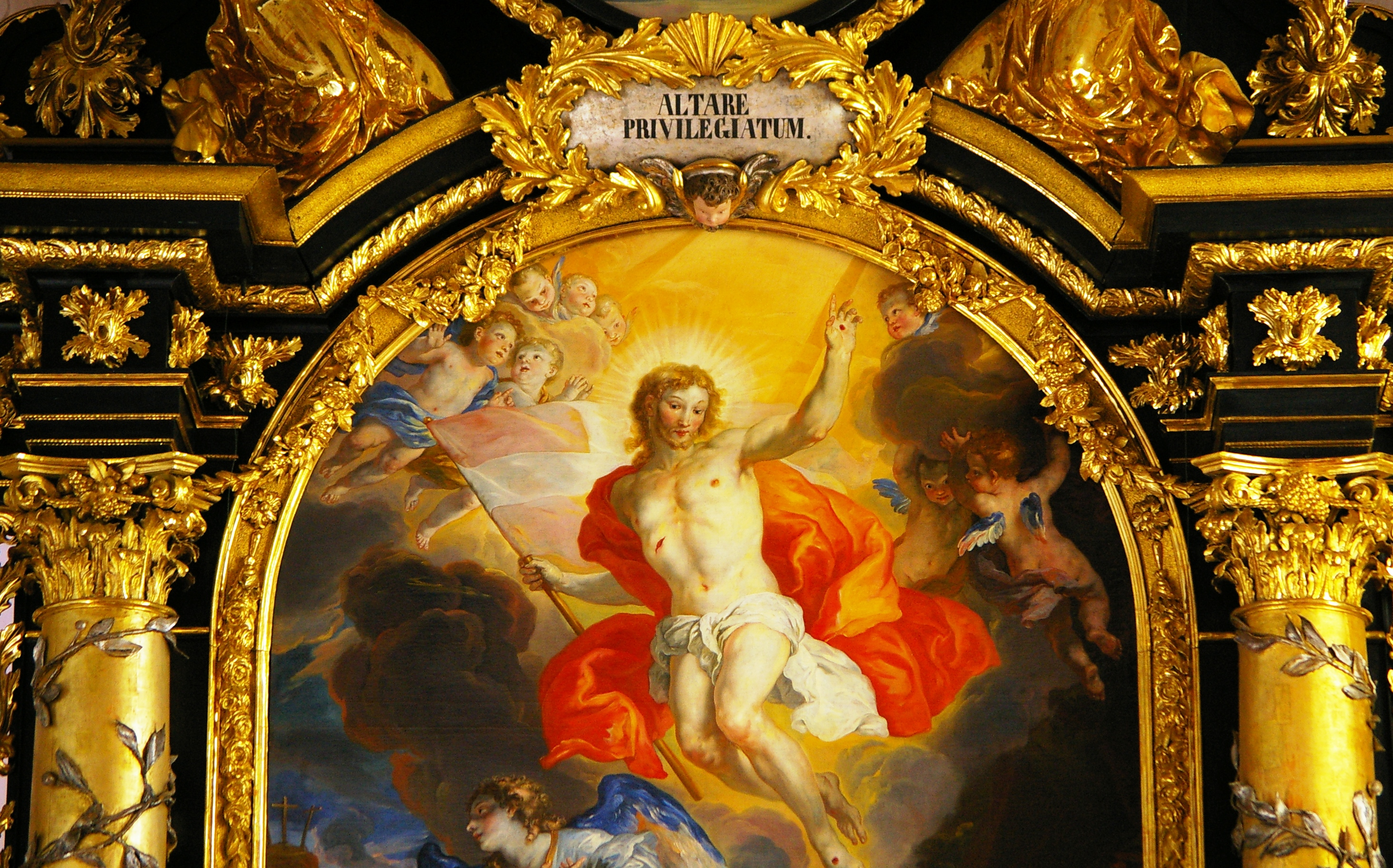 Michaelbeuern abbey church altar by Johann Michael Rottmayr